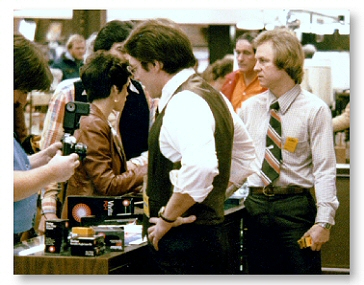 Jafco Sellers (from JR Hudson)